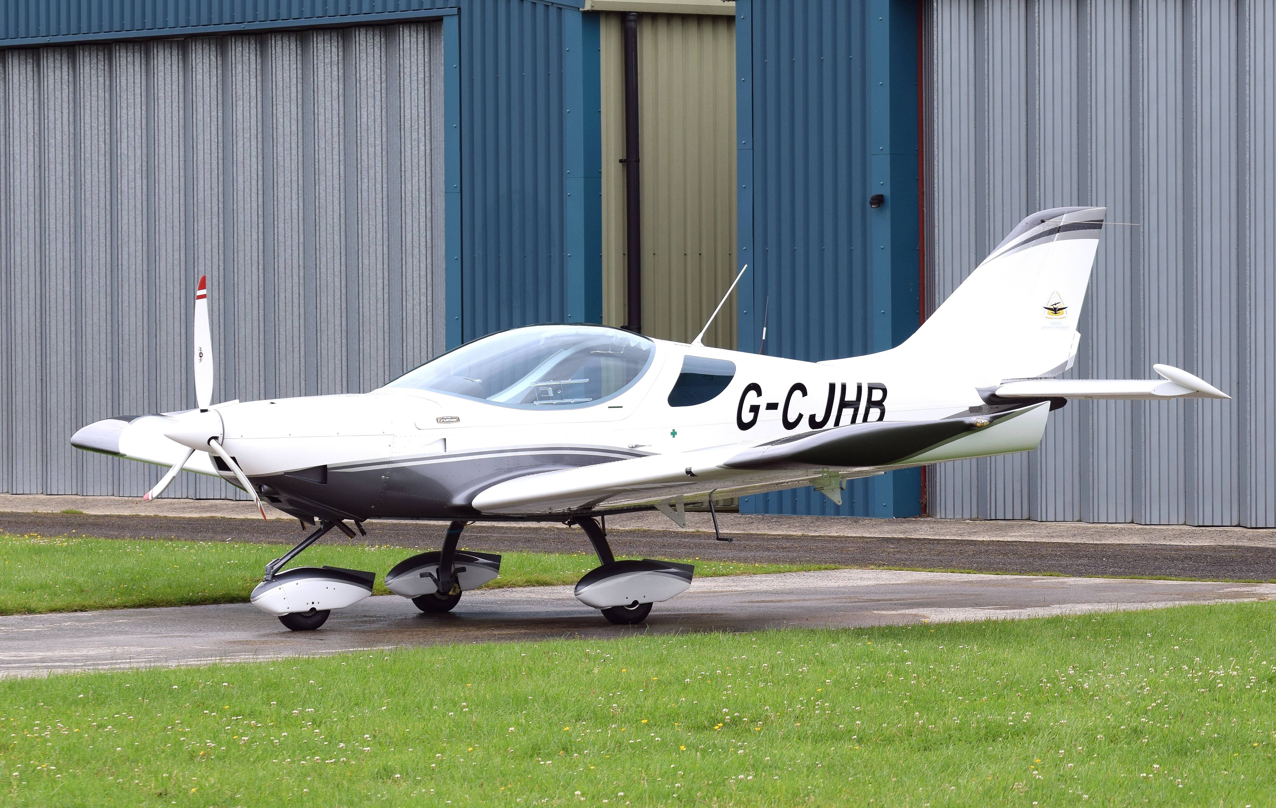 Czech Sport Aircraft PS-28 Cruiser at Cotswold Airport, Gloucestershire, England. UK registration G-CJHB. Date of build 2014.